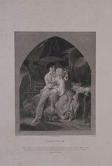 "Paul et Virginie", lithograph after a line engraving by Jean-Alexandre Allais (1792–1850) DescriptionFrench etcherDate of birth/death 17 June 1792 9 November 1850Location of birth/death Paris ParisWork location Paris (1810–1850)Authority control : Q3163668 VIAF: 42111999 ISNI: 0000 0000 4651 6011 SUDOC: 18265415X BNF: 14964968k BNE: XX5395514 creator QS:P170,Q3163668